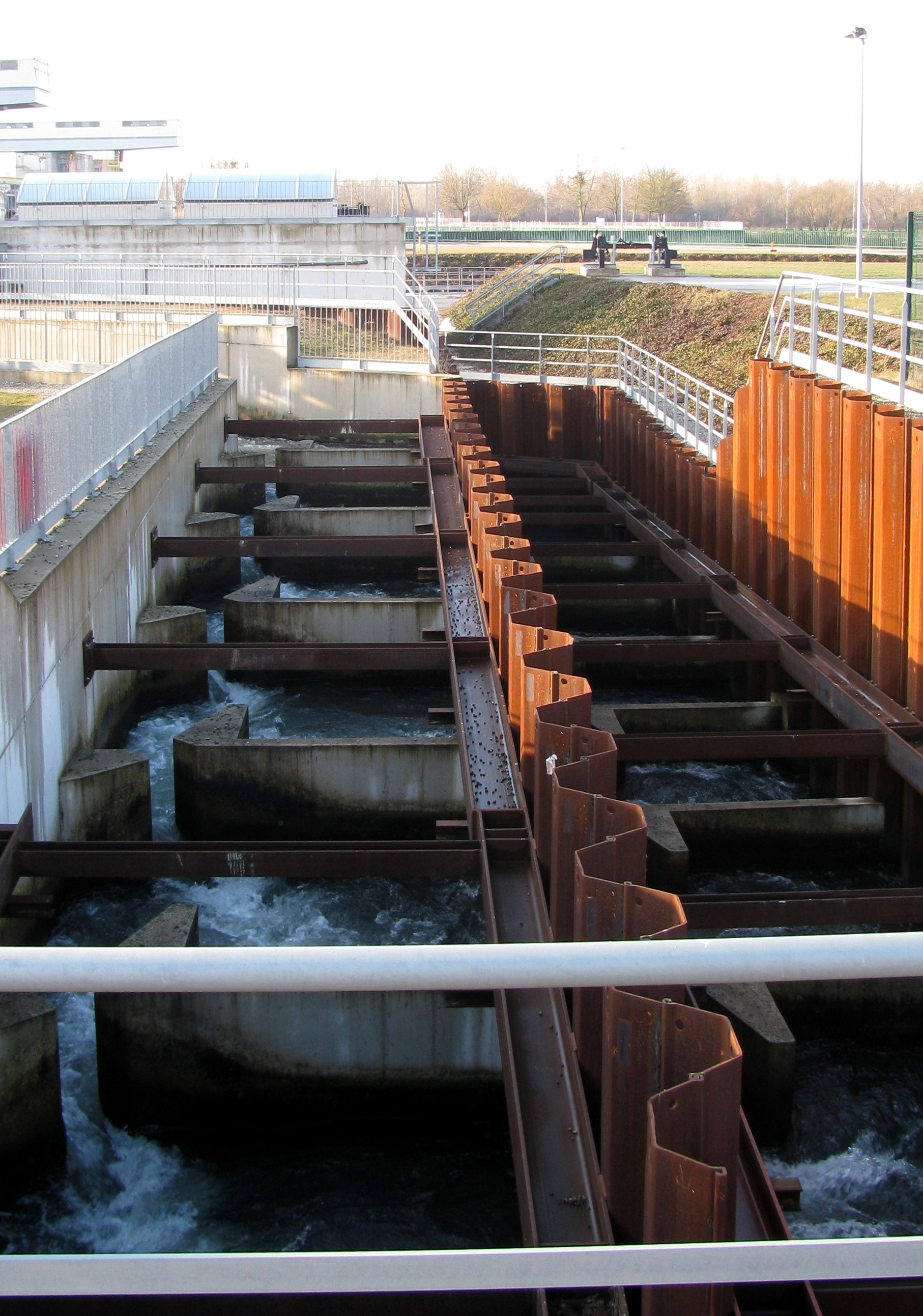 Fish ladder or fish pass beside spillway or weir, between Gambsheim (France) and Freistett (Germany)